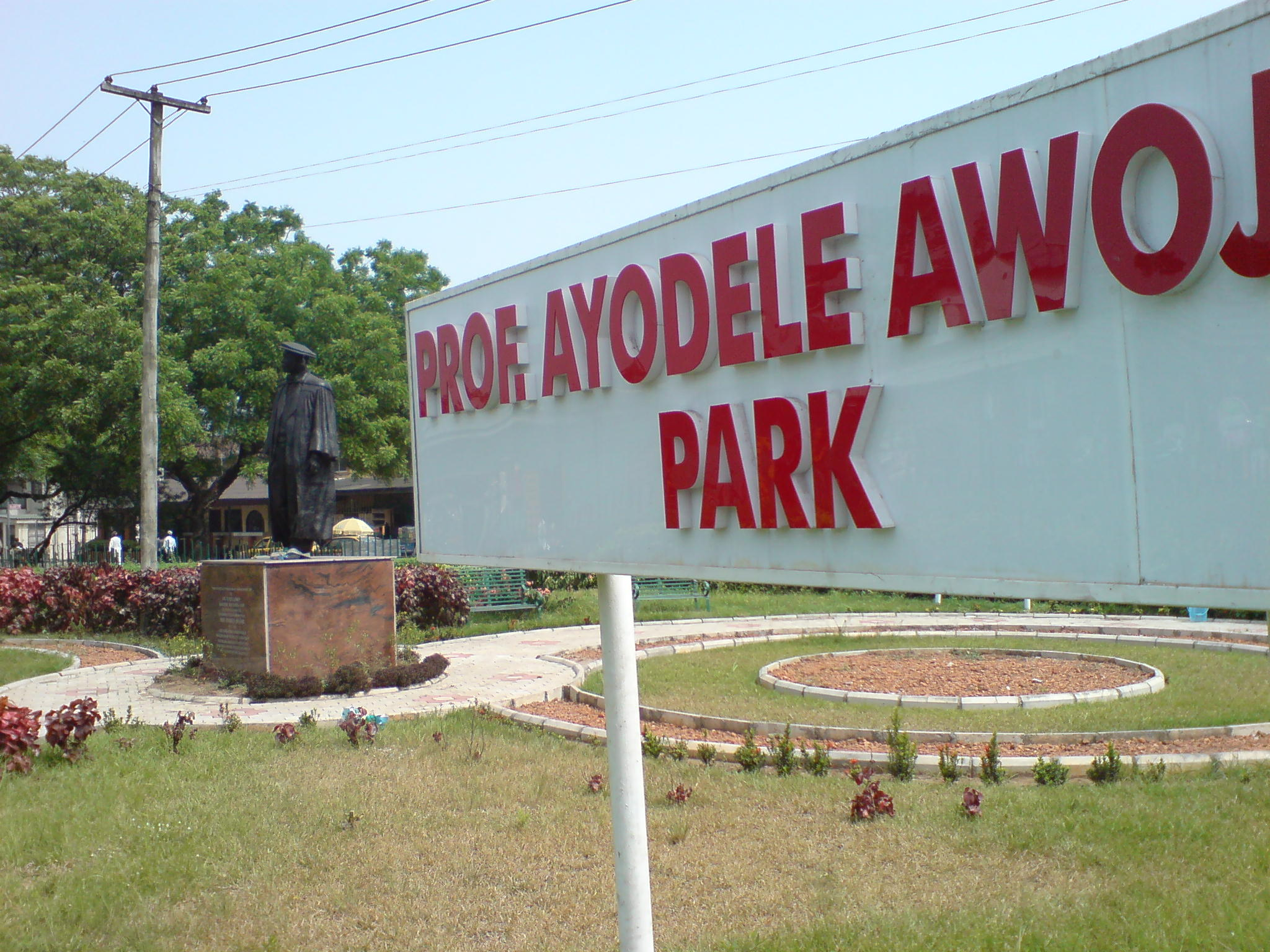 The file is a jpeg image that was uploaded unto my laptop from my Sony Ericsson camera phone (K800i) with which the picture was taken by me on 5/12/2009.